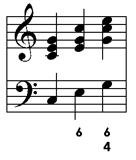 Created by the author to illustrate figured bass notation of chord inversions.